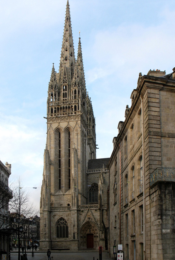 Vue méridionale des flèches de la cathédrale Saint‑Corentin, Quimper (France)